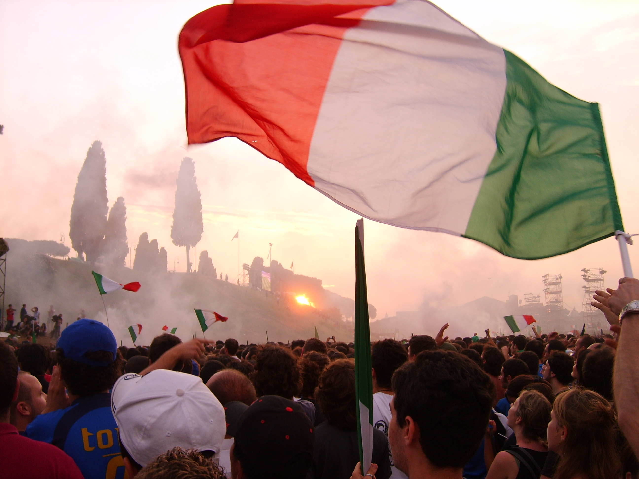 A lot of people gathered in Circus Maximus, Rome, to watch all together the final of the FIFA World cup 2006 Italy vs France. This is a picture I took during the match, staying within the crowd.